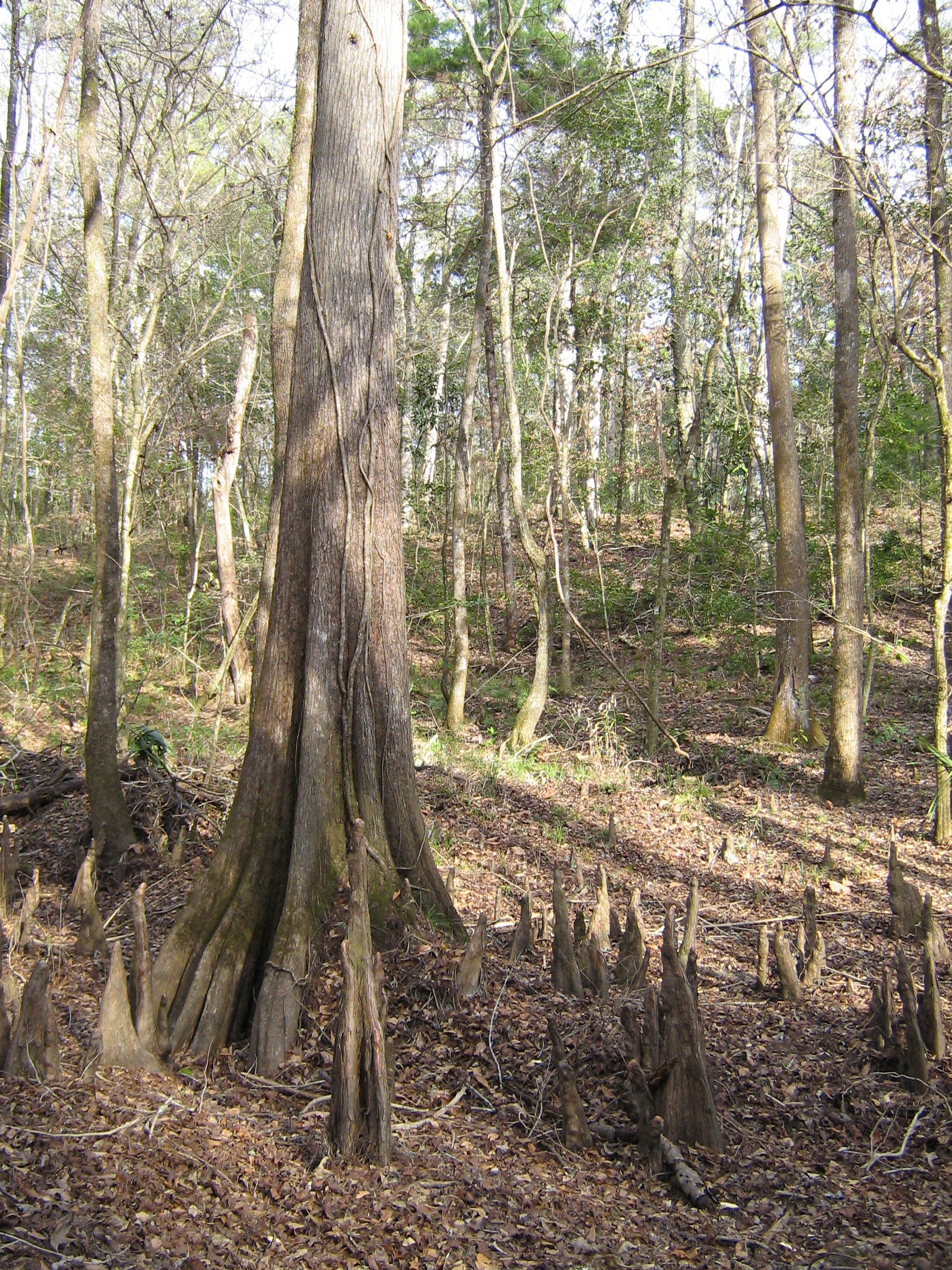 Knees around a baldcypress tree in the Wakulla District of the Apalachicola National Forest